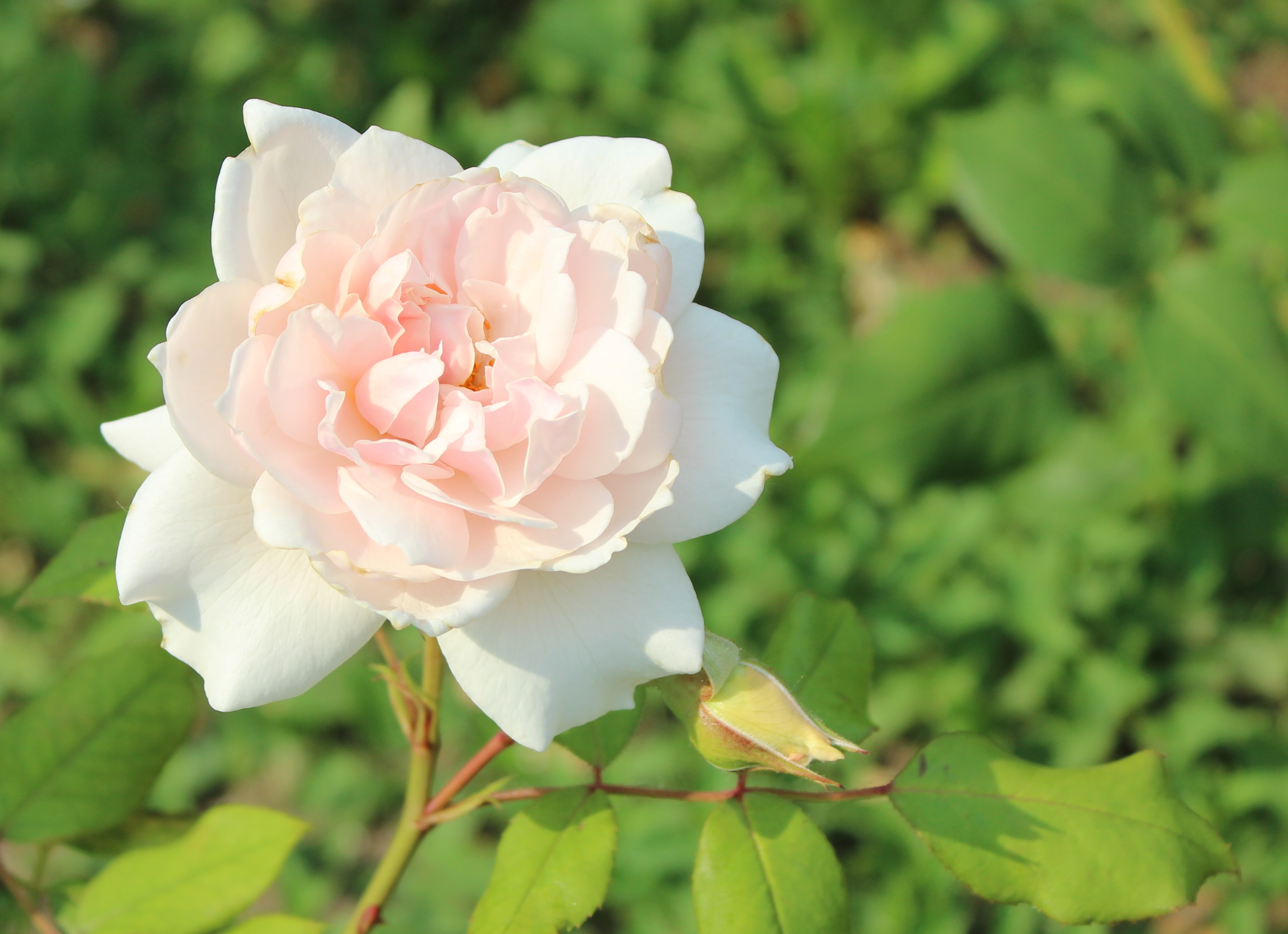 Rosa 'Dove' in the Rosarium Wettsteinpark in Vienna. Identified by sign. (Beetrose 'Dove', Z.J.: 1984)